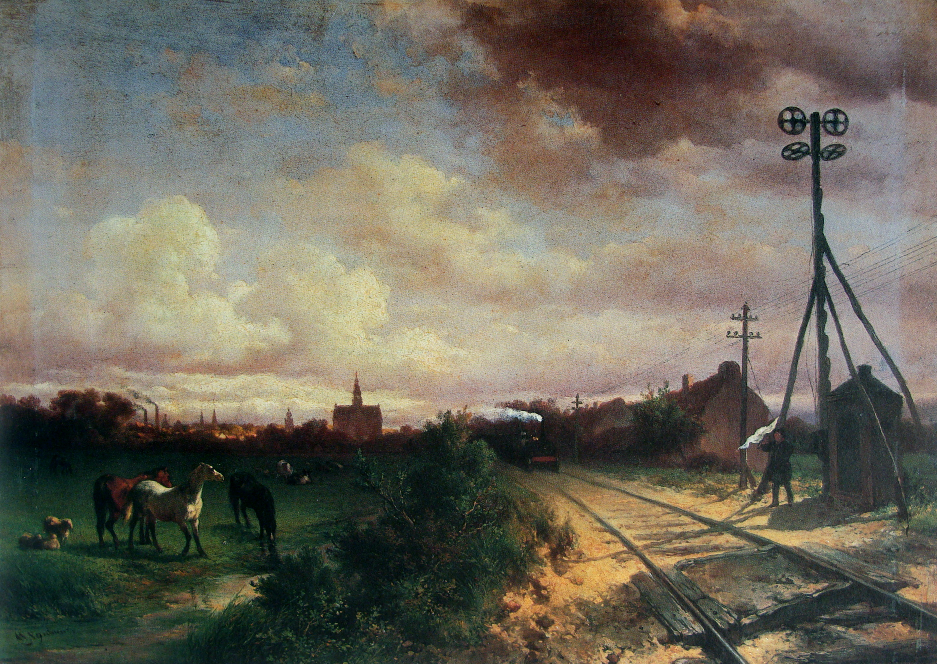 Painting of a field with horses, a train and a signalman with flag. The semaphore is for exchanging messages between signal posts, not for giving orders to the train crew. This painting is dated shortly after 1845 (Asselberghs 1981). The church in the background is the St-Bavo church in Haarlem (The Netherlands)